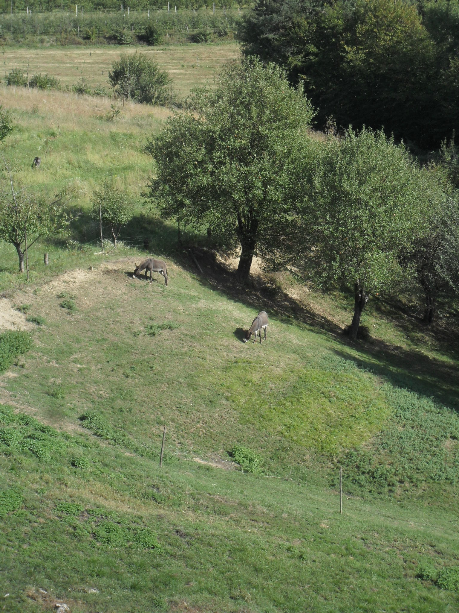 Two donkeys in Otovci, Prekmurje